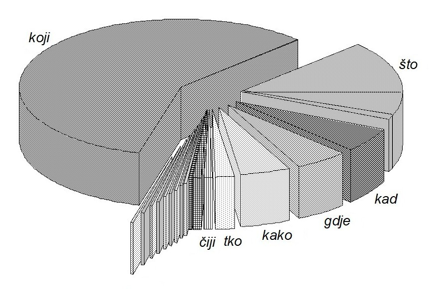 Frequency of relativizers from Snježana Kordićʼs book Relativna rečenica, Zagreb 1995, diagram on p. 56 or its German translation: Der Relativsatz im Serbokroatischen, Munich 1999, diagram on p. 46